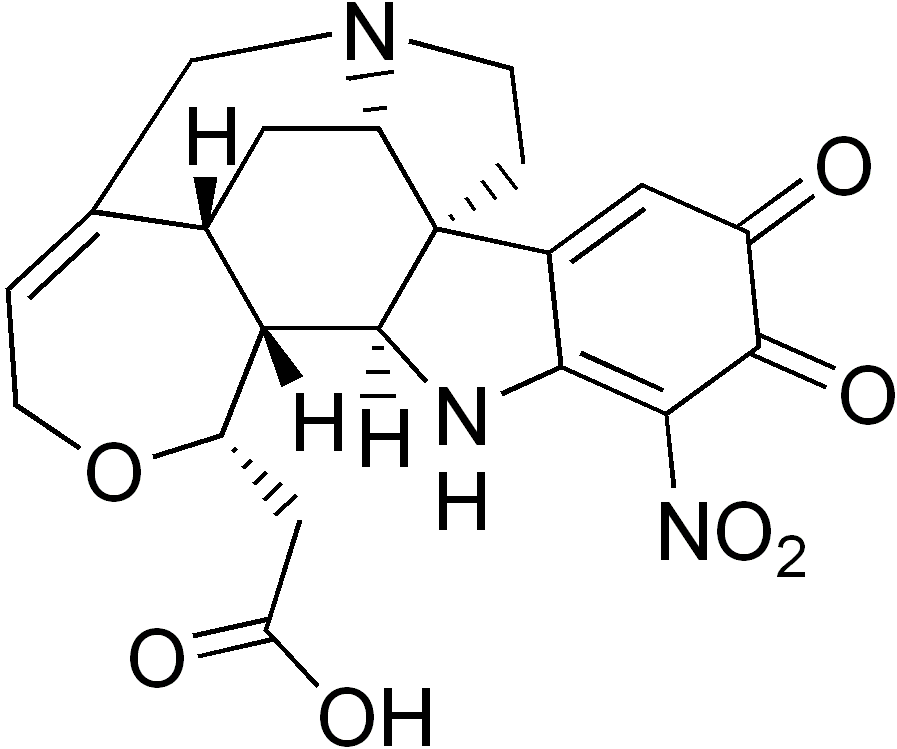 chemical structure of Cacotheline